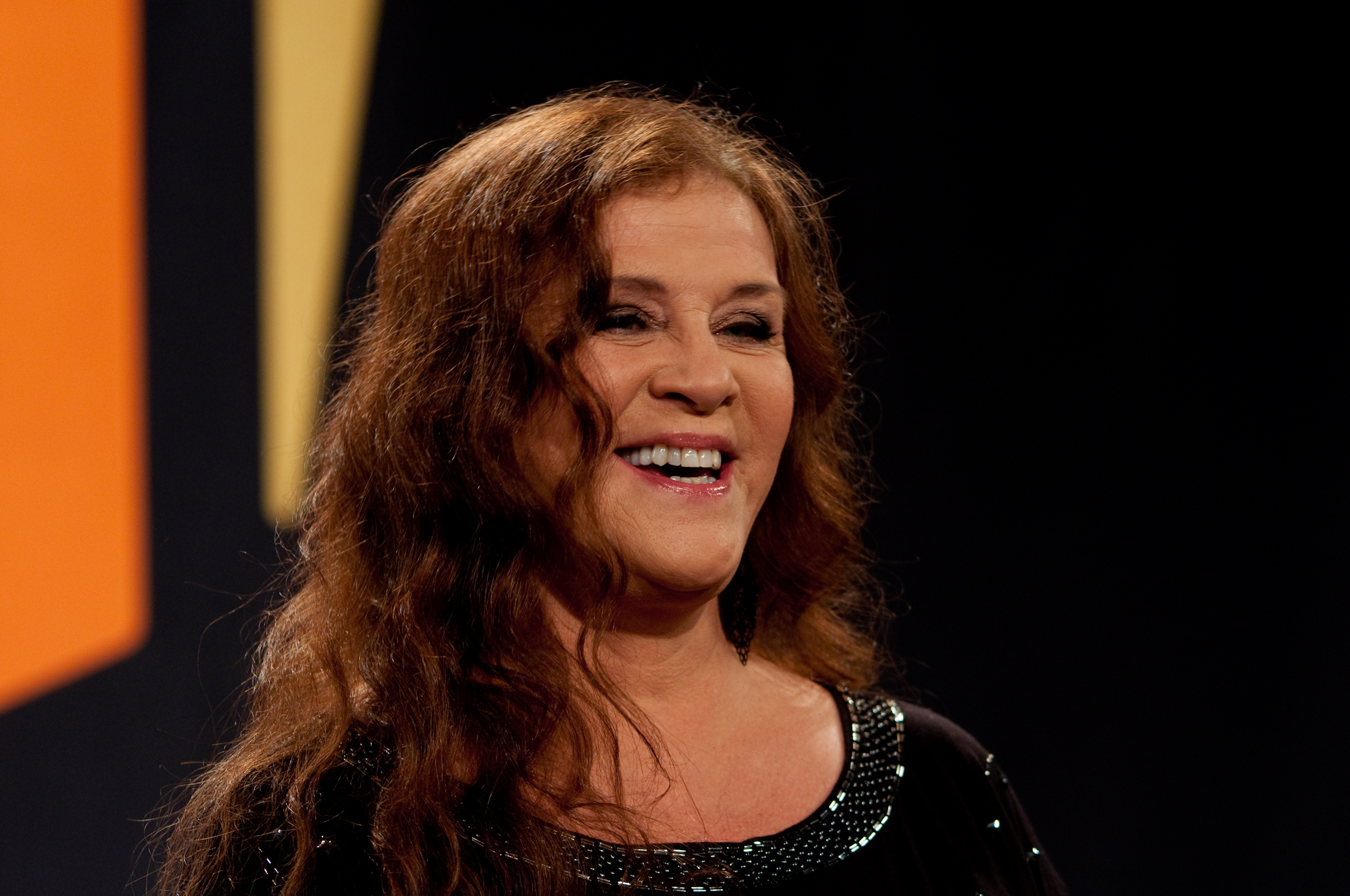 Py Bäckman 2009 at a press conference for Melodifestivalen 2010